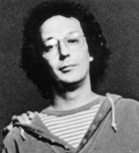 Photo of the musical group Starland Vocal Band.